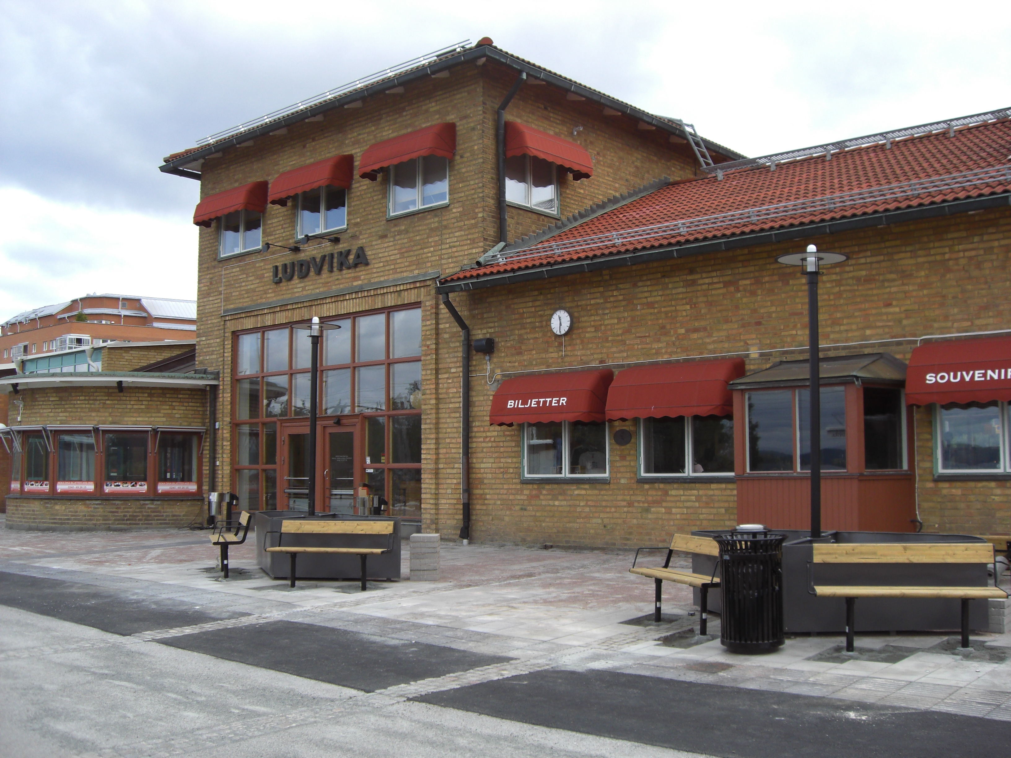 Ludvika Central Station